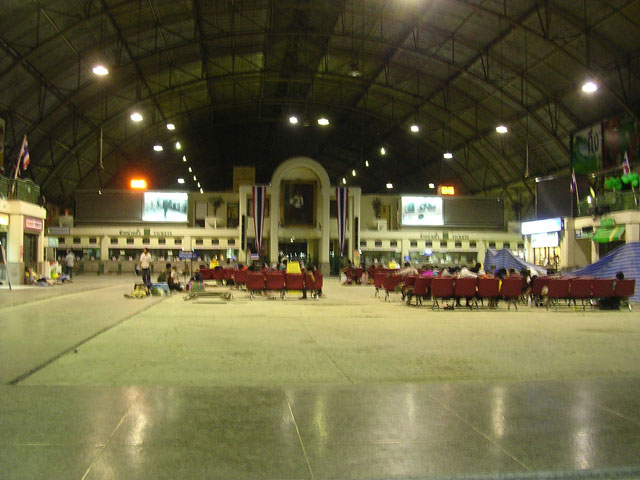 Hualamphong Station in Bangkok, Thailand